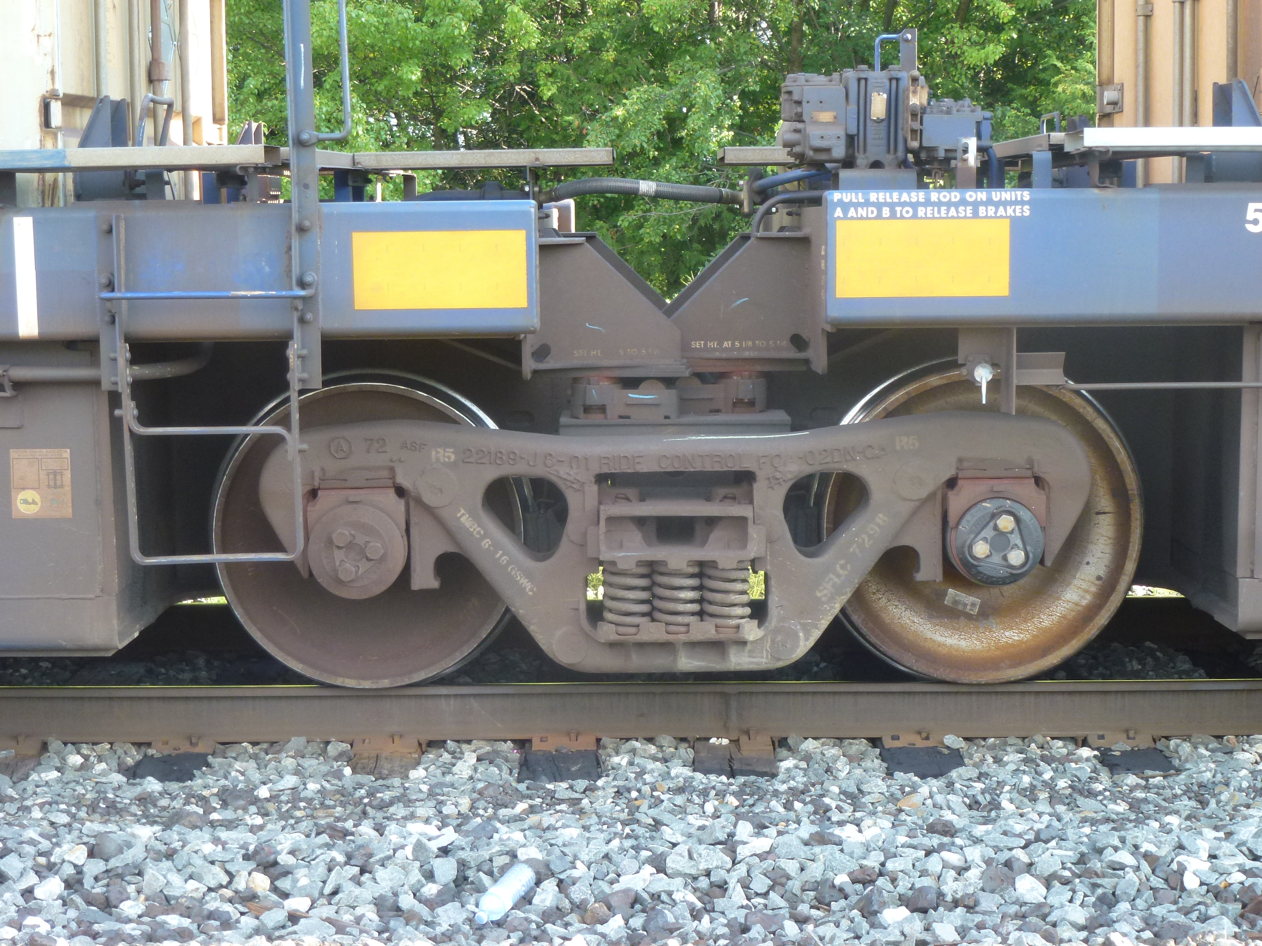 A Jacobs bogie between two sections of an articulated well car in a Canadian Pacific train in Bolton, Ontario, 2017-08-09.